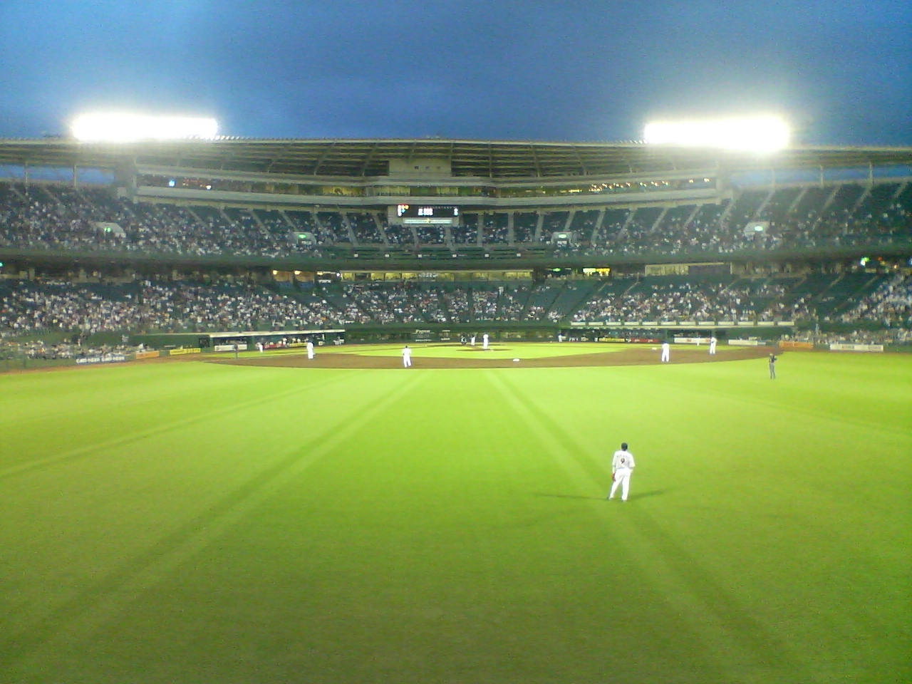 Skymark Stadium in Kobe, Japan, from the outfield bleachers